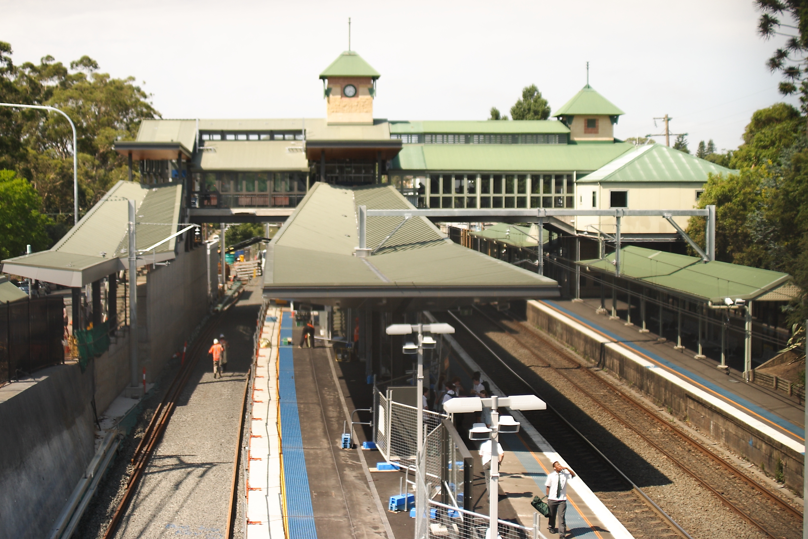 Pennant Hills train station, showing work on construction of the third track underway. Taken 10 December 2015.